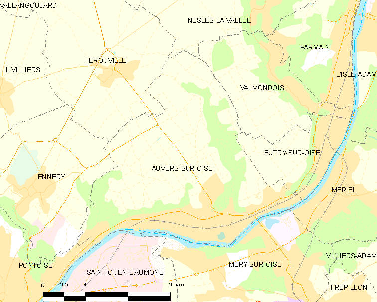 Map of French municipality Auvers-sur-Oise